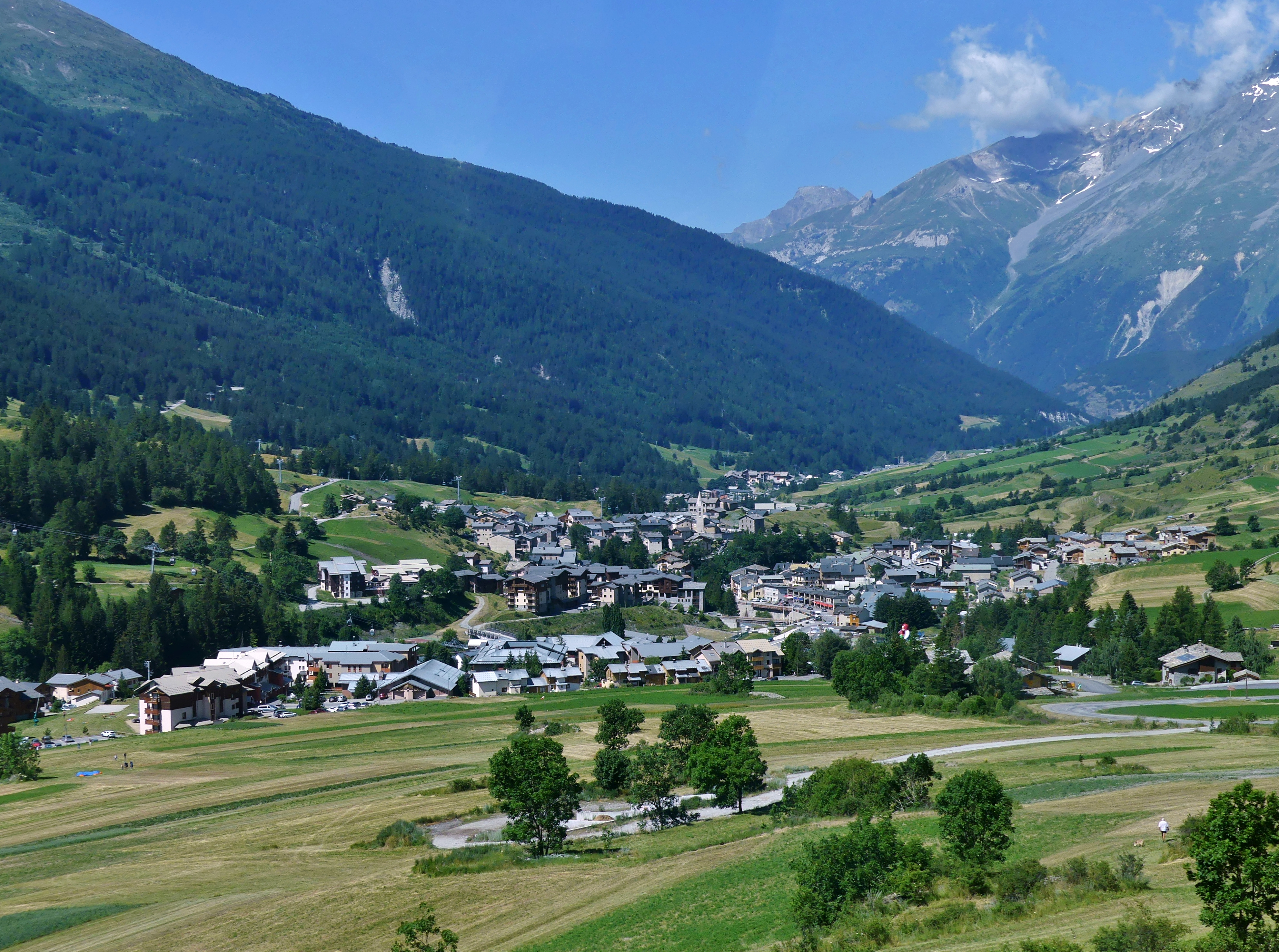 Panoramic sight of Lanslevillard village, part of the commune of Val-Cenis in the high Maurienne valley, in Savoie, France.